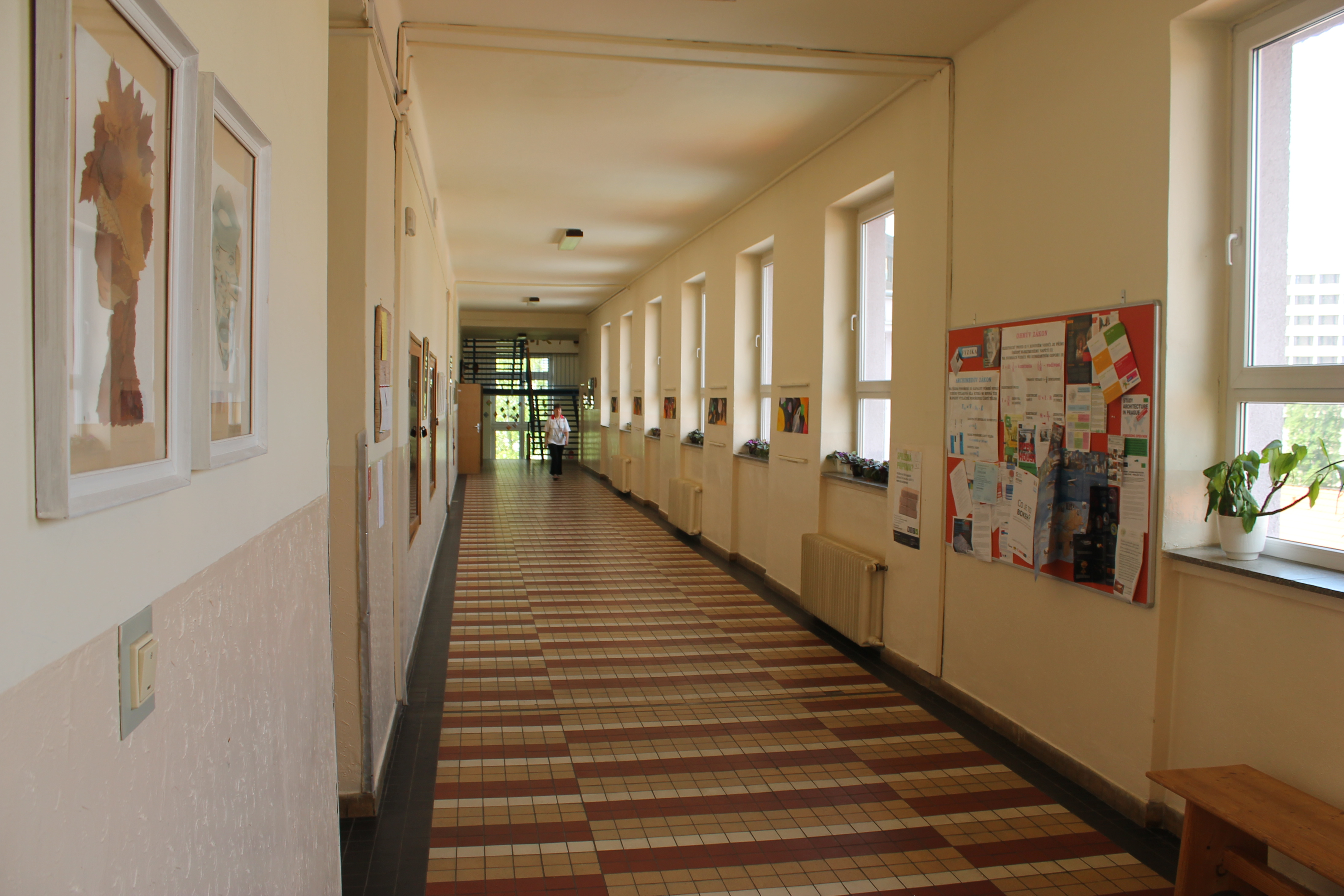 Gymnázium Budějovická, Prague – corridors